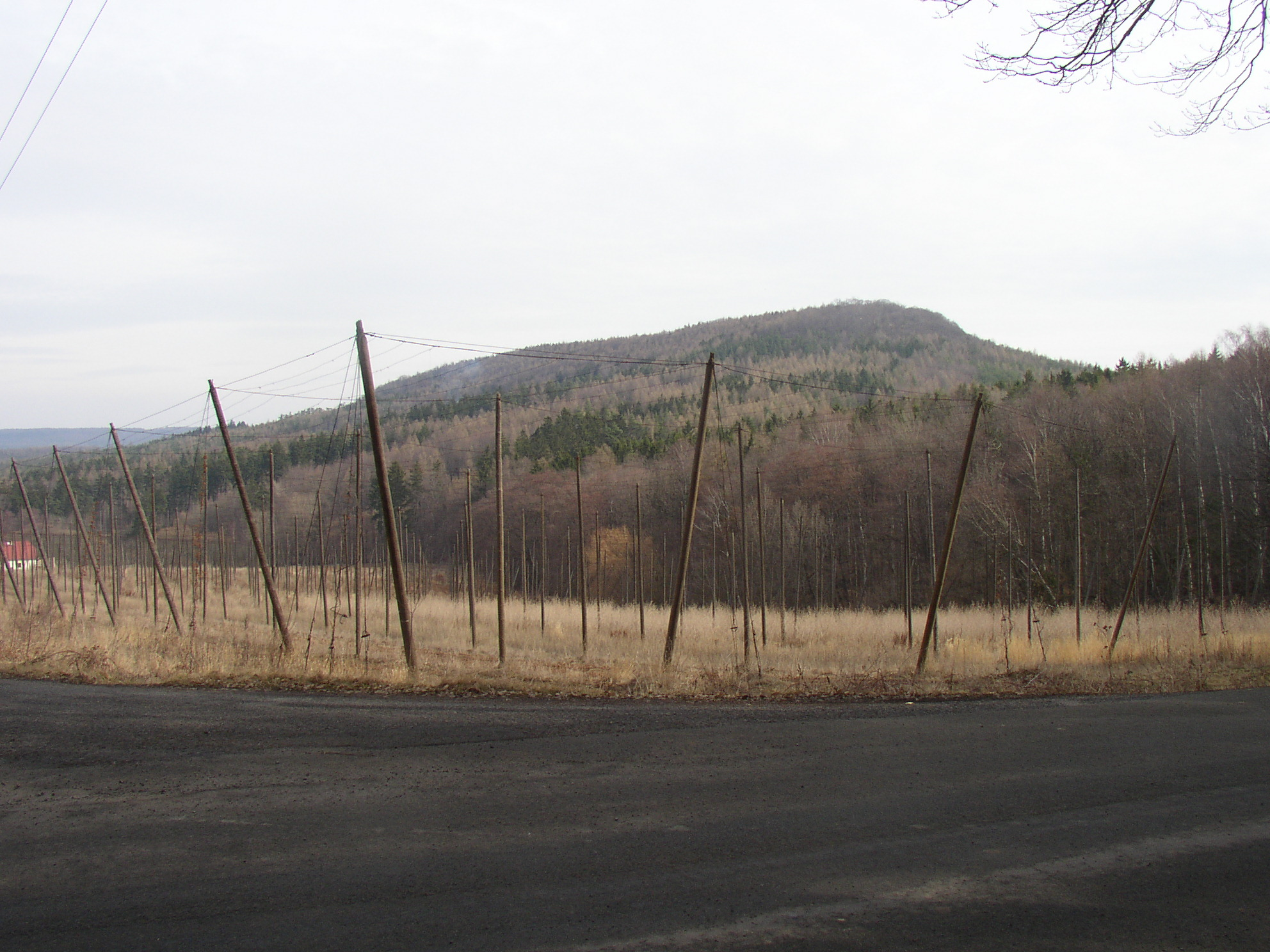 Hill of Pravda (484 m) near village of Pnětluky, Louny District, Czech Republic. Ruin of medieval Pravda Castle is located on its top. A view from WSW.